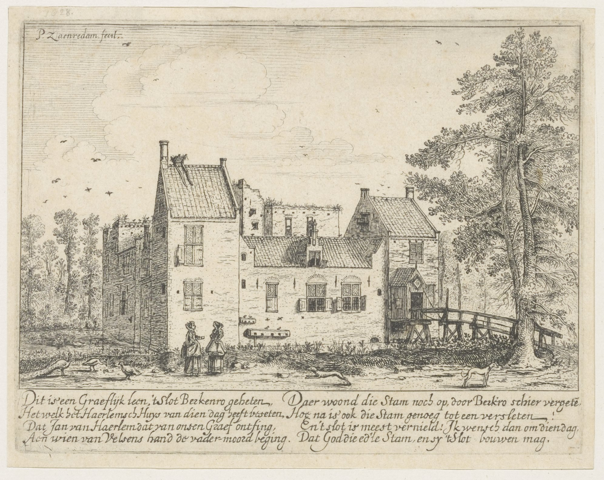 View of Berkenrode Castle, near Haarlem, which was party destroyed during the Siege of Haarlem in the winter of 1573-1574. Published in Samuel Ampzing's Beschrijvinge ende Lof der Stad Haerlem (Haarlem, 1628): facing p. 88.